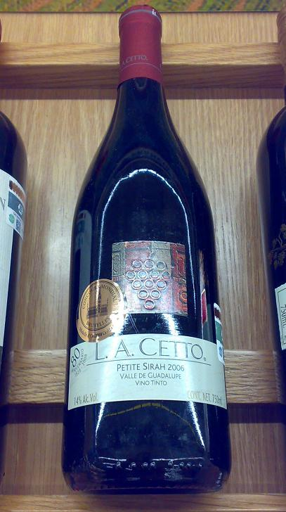 A Wine bottle of L.A. Cetto Petite Sirah 2006 from Mexico.